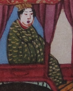 An extract from the 1,003cm x 36.1cm Kiyo Suwa Myojin saishiju scroll painting, which dates from the 19th century, describes the Suwa Myojin Festival in Nagasaki City. The event aimed to honour the princess of Viet Nam’s Lord Nguyen Phuoc Chu. Called Nguyen Phuoc Ngoc Hoa, she married a Japanese businessman, Mr Araki Sotaro, and her name was then changed to Anio.